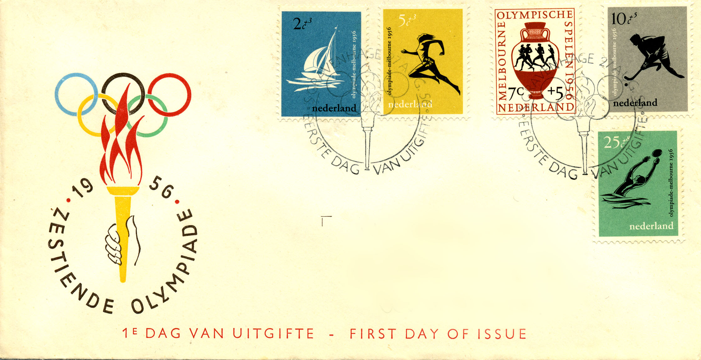 First day of issue 1956-08-27 zestiende Olympiade